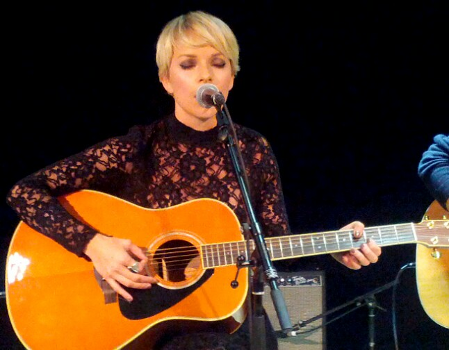 Swedish singer Petra Marklund, alias September, with her guitar.